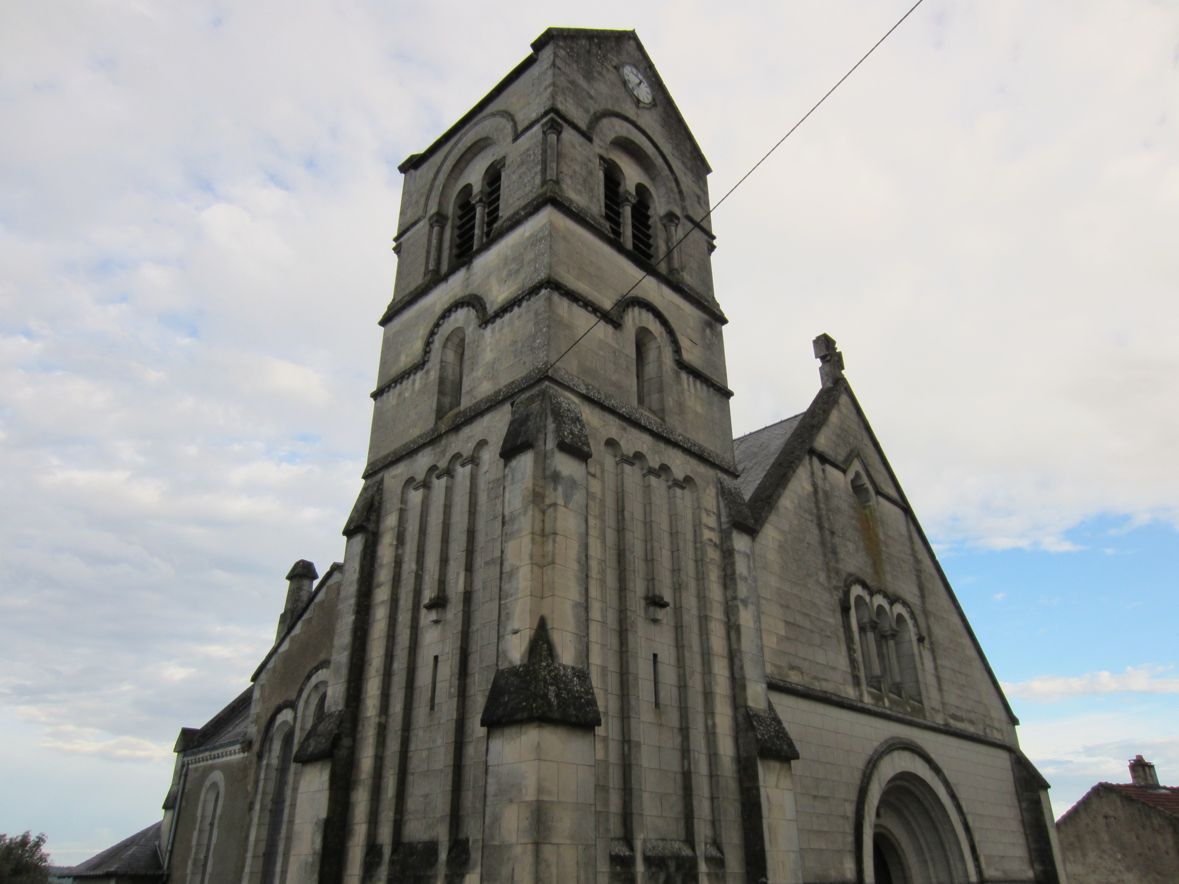 Description eglise Preny Date13 September 2011Sourcemon appareil photoAuthorAimelaimePermission (Reusing this file) eglise Preny